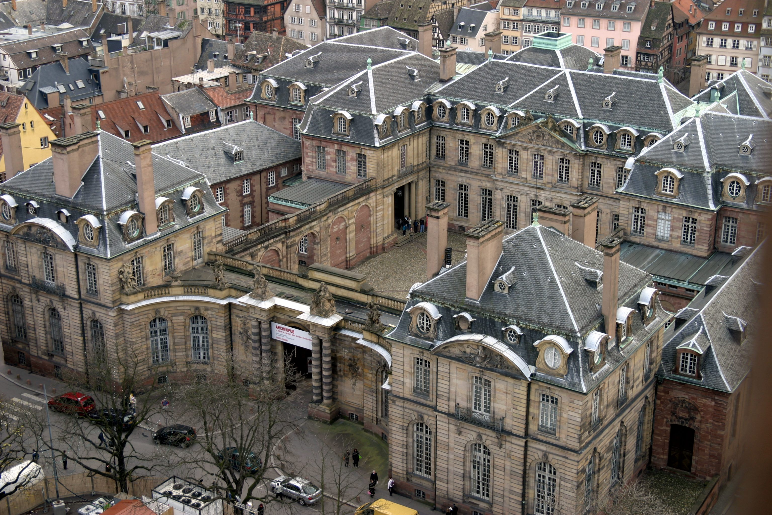 This image was taken at Strasbourg Cathedral, Strasbourg and shows the Palais Rohan.